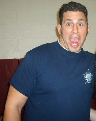 Colt Cabana live in OVW at last weeks tapings in Louisville, Kentucky.